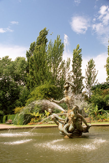 A fountain in Regent's Park, London, UK. Photo by Przemyslaw 'BlueShade' Idzkiewicz. Taken in July, 2004. Release under cc-by-sa license. Category:Images of London dsgh